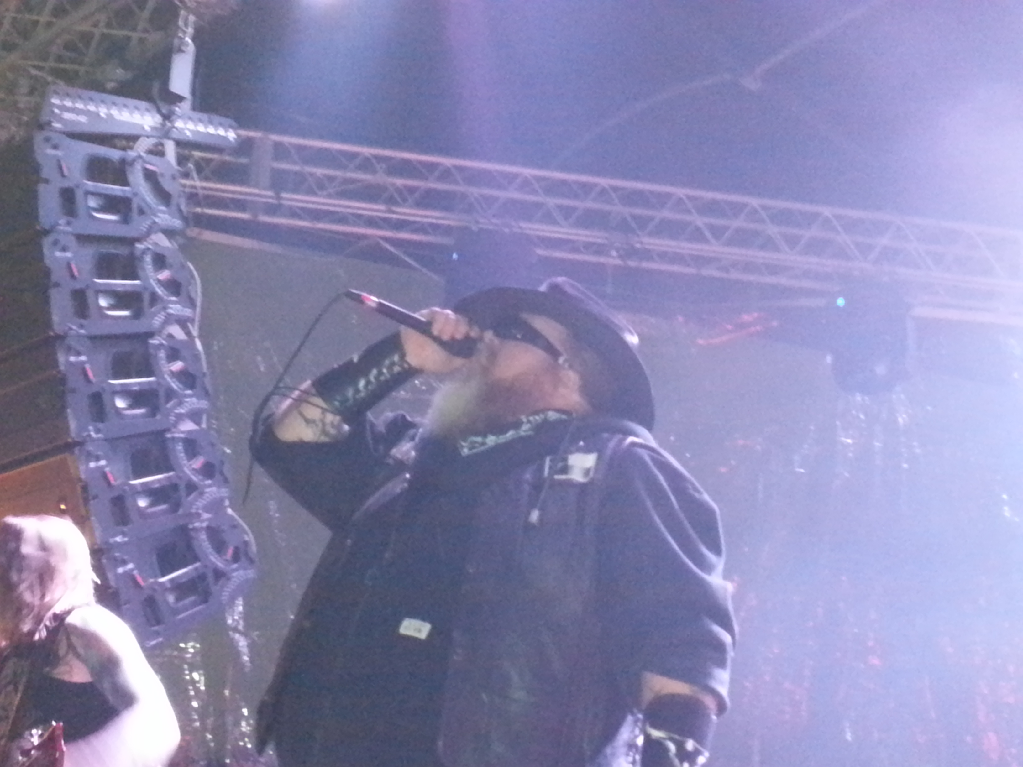 Big Dad Ritch of Texas Hippie Coalition